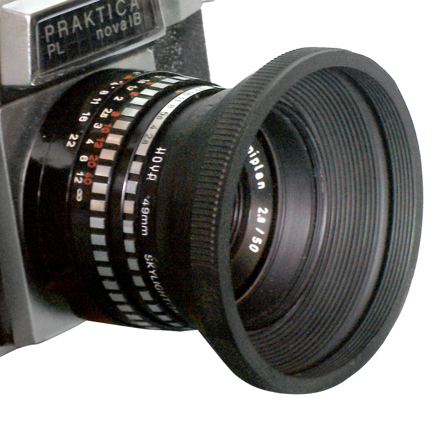 Lens Hood, scattered light shutter